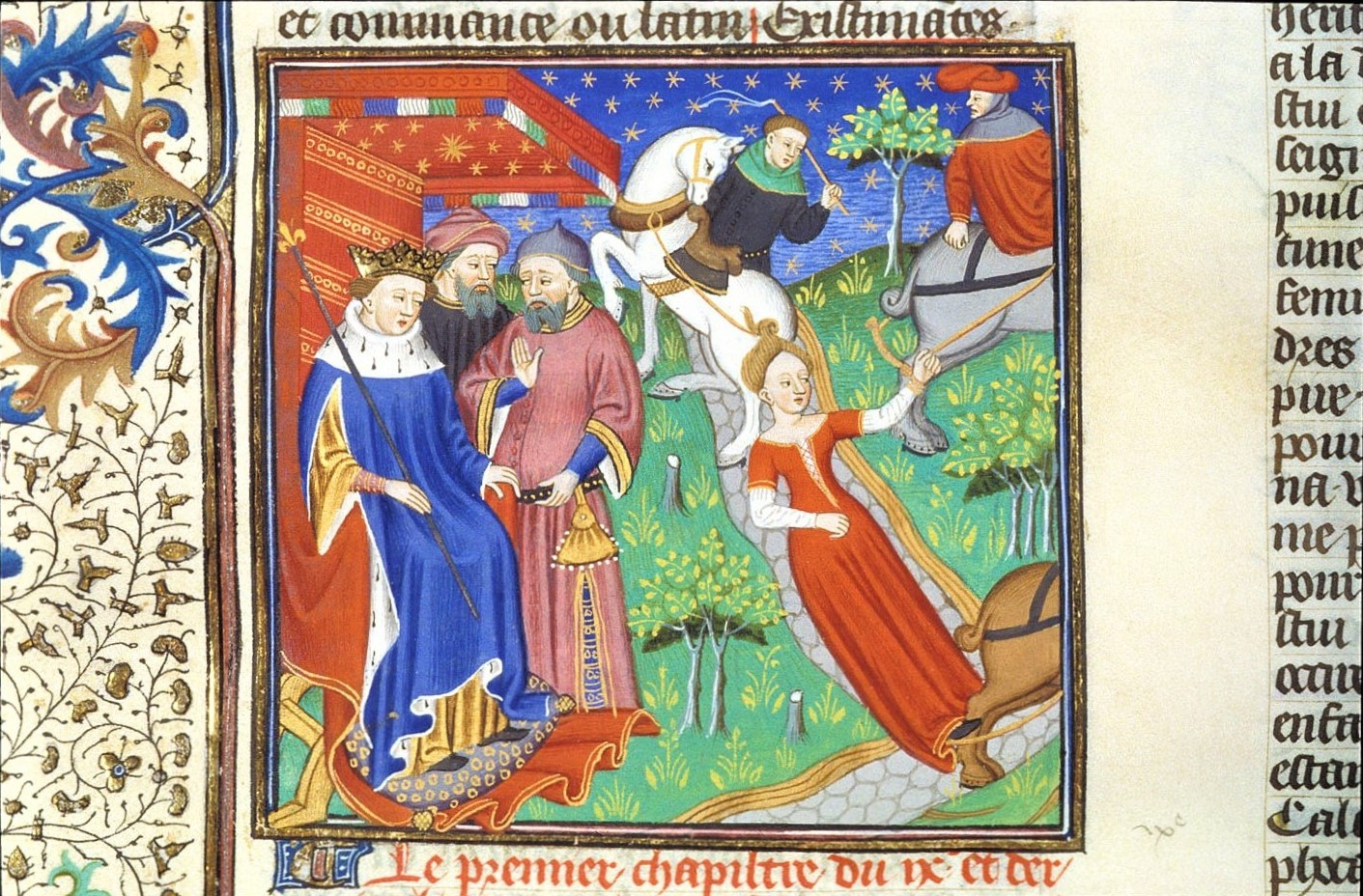 Death of Brunhilda. (British Library, Royal 18 D VII f. 203v)